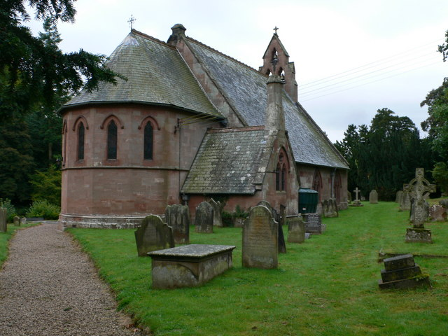 St Hilary's parish church, Erbistock, Wrexham County Borough, Wales, seen from the northeast. A church at Erbistock dedicated to St Erbin is recorded in the Norwich Taxation of 1254. A new church was built beside the River Dee about 1748. The present church of St Hilary was completed on the same site in 1861.